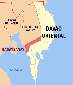 Map of the Davao Oriental showing the location of Banaybanay